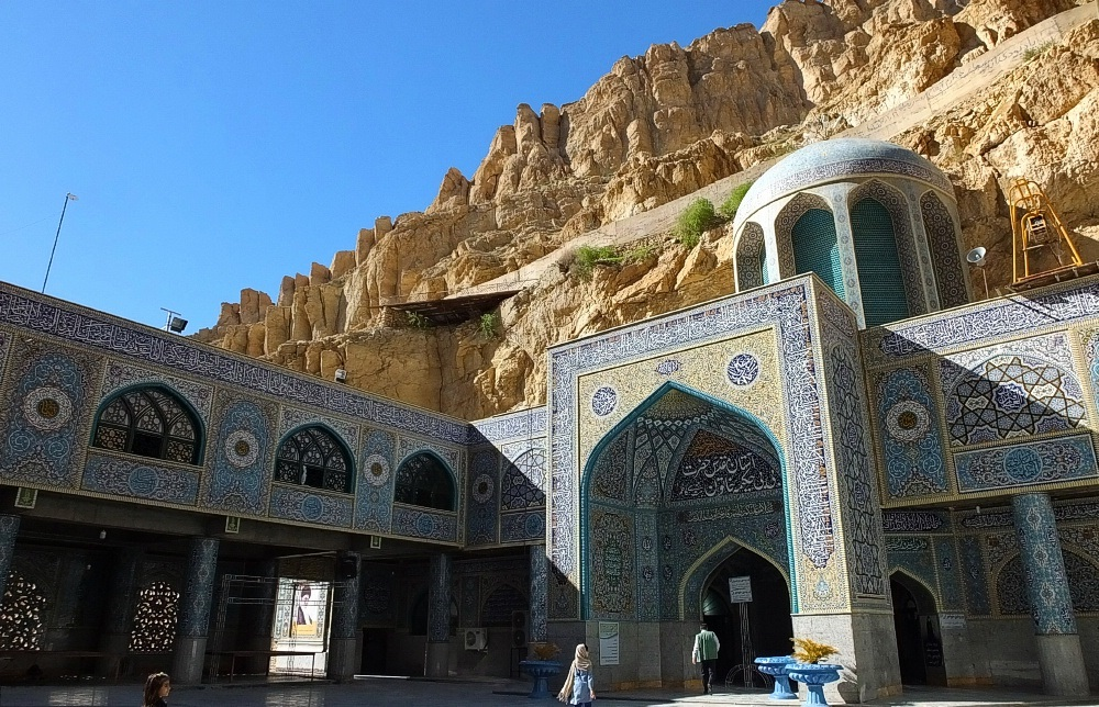 Bibihakimeh